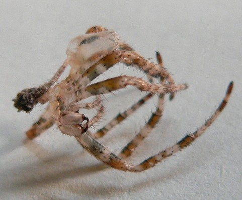 Araneus diadematus, cross spider, The cross spider in my room went away for 3 days and came back with smaller belly, but with bigger legs. Afterwards I found the shedded skin.